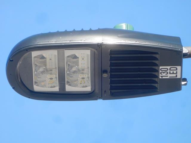 History of street lighting: General Electric Evolve ERS2 Scalable - Black version found in Wakefield, Massachusetts